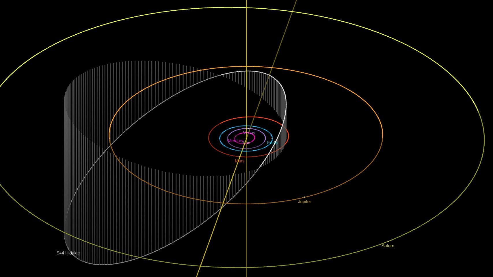 Trajectory and position of 944 Hidalgo in the Solar system on Jan 1st, 2000.